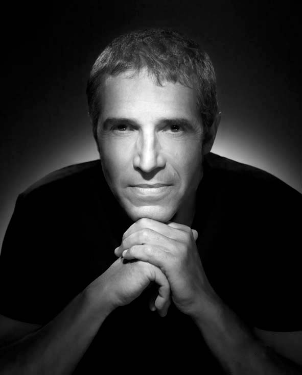 Julien Clerc photographed by Studio Harcourt Paris